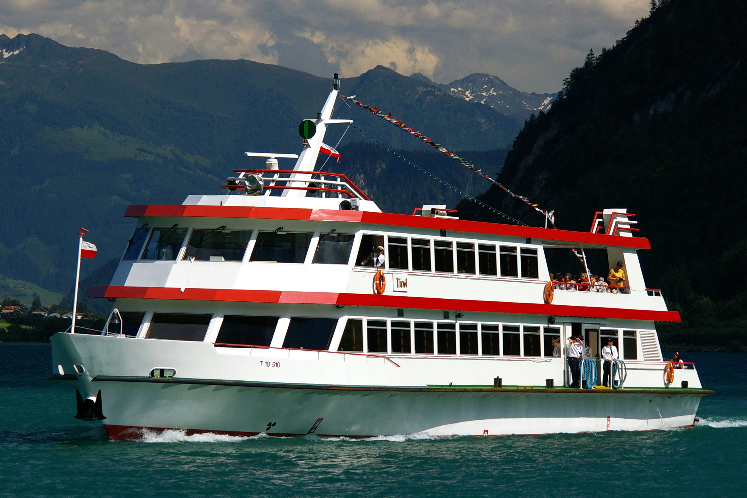 MS Tirol at Achensee